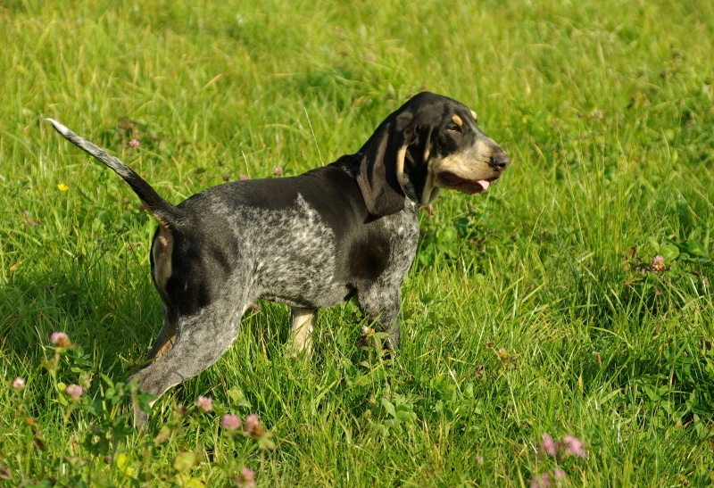 Small Blue Gascony Hound, male "Brigand od Smutne ricky" from kennel "Le Bleu Cardinalis FCI", Poland. The owner - Katarzyna Bujko